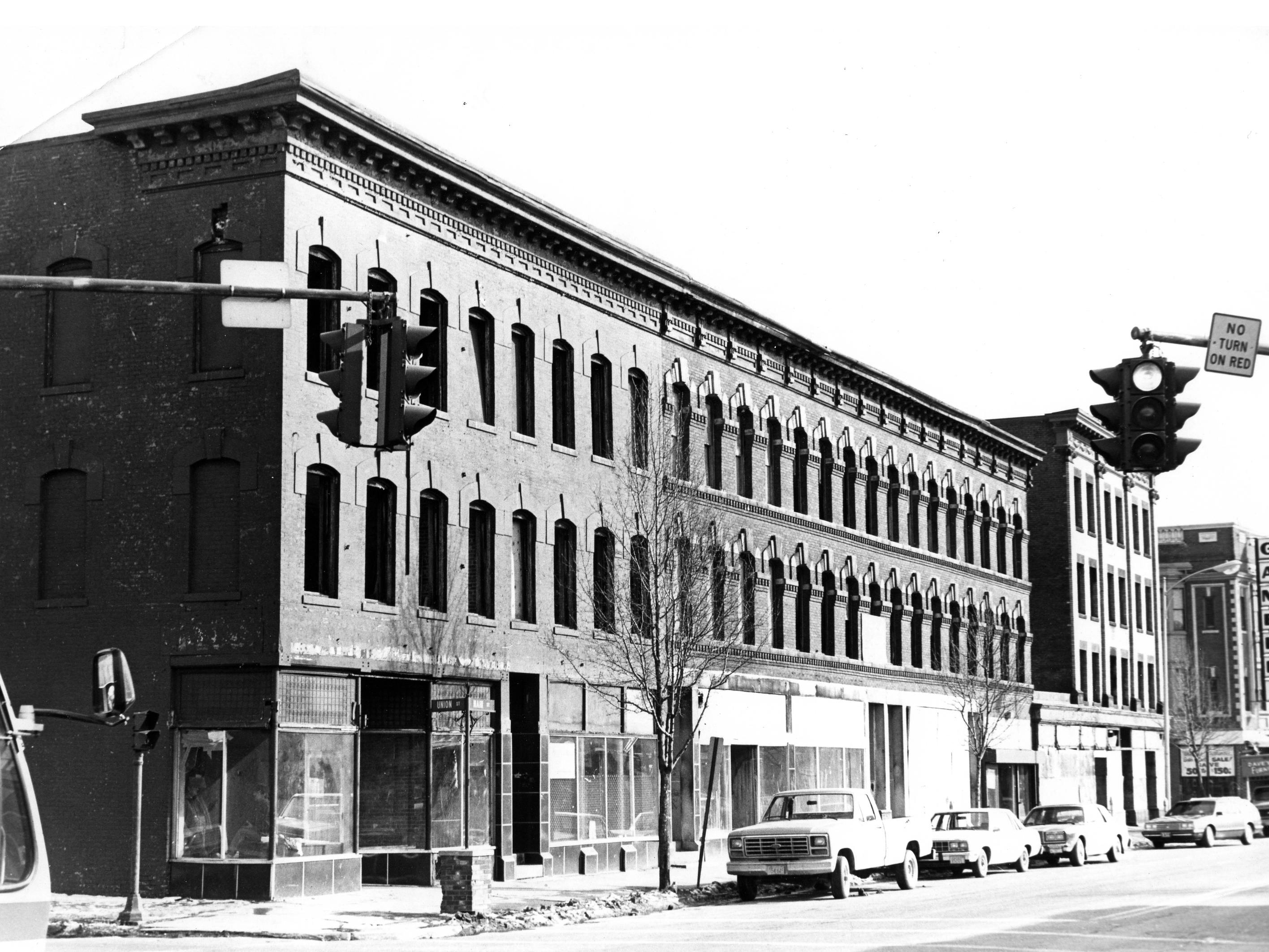 Mills-Hale-Owen Blocks, Springfield, Massachusetts. Buildings have been demolished.